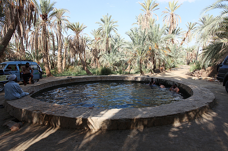 Spring, Fatnas island, Siwa depression, Egypt